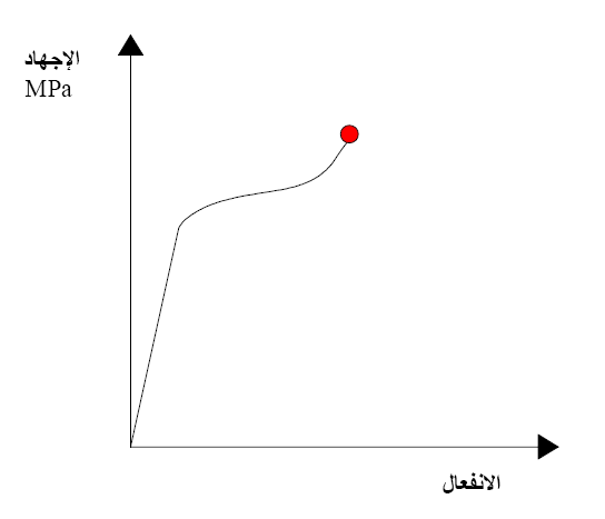 stress strain curve